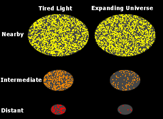 According to the tired light hypothesis, given a simple (static and flat) universe, the photons per second received from an object drops proportional to the square of its distance and the apparent area of the object also drops proportional to the square of the distance, so the photons received per surface area per unit time would be constant, independent of the distance, even though the surface brightness is reduced because of tired light reddening. In an expanding universe, however, there are two effects that change this relation. First, the rate at which photons are received is reduced because each photon has to travel a little farther than the one before. Second, the energy of each photon observed is reduced by the redshift. At the same time, distant objects appear larger than they really are because the photons observed were emitted at a time when the object was closer. Adding these effects together, the surface brightness in a simple expanding universe (flat geometry and uniform expansion over the range of redshifts observed) should decrease with the fourth power of (1+z).